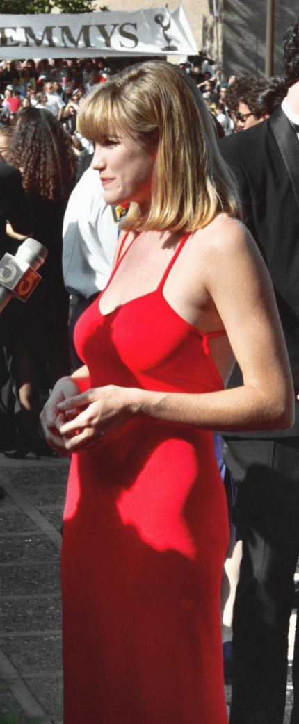 1992 Emmy Awards NOTE: Permission granted to copy, publish, broadcast or post any of my photos, but please credit "photo by Alan Light" if you can. Thanks. Scanned from the original 35MM film negative.